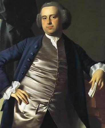 Moses Gill, by John Singleton Copley.